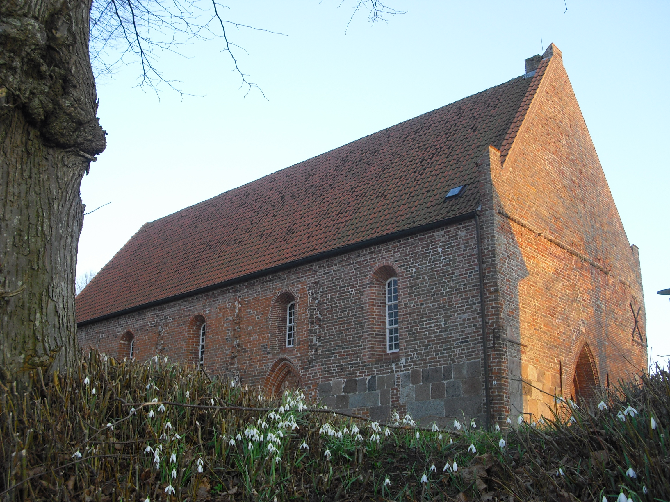 Church of Leerhafe (City of Wittmund), Germany